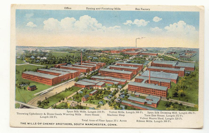 Cheney Brothers Mills, South Manchester, 1920, aerial view